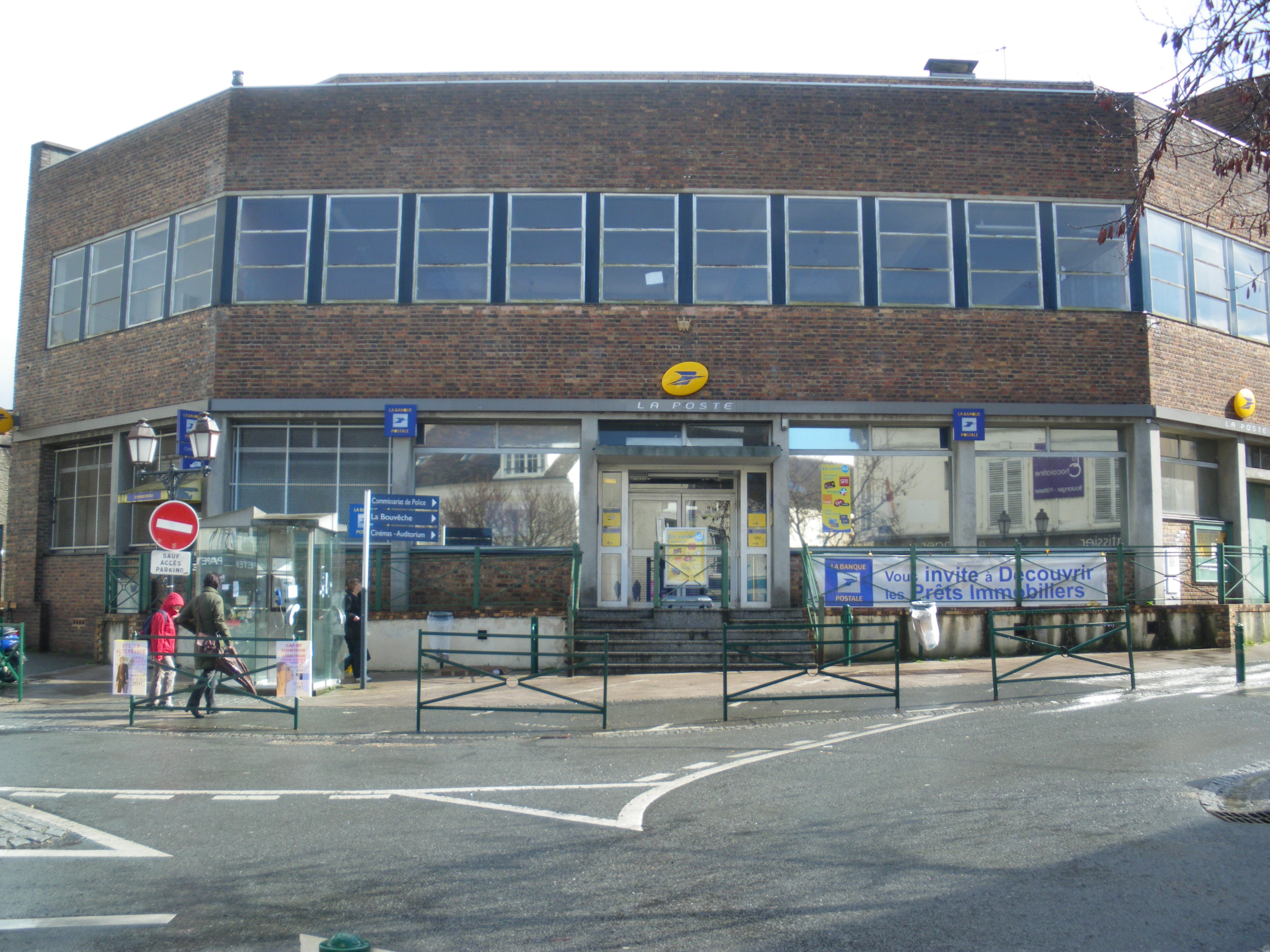 Post Office down town Orsay, Essonne, France